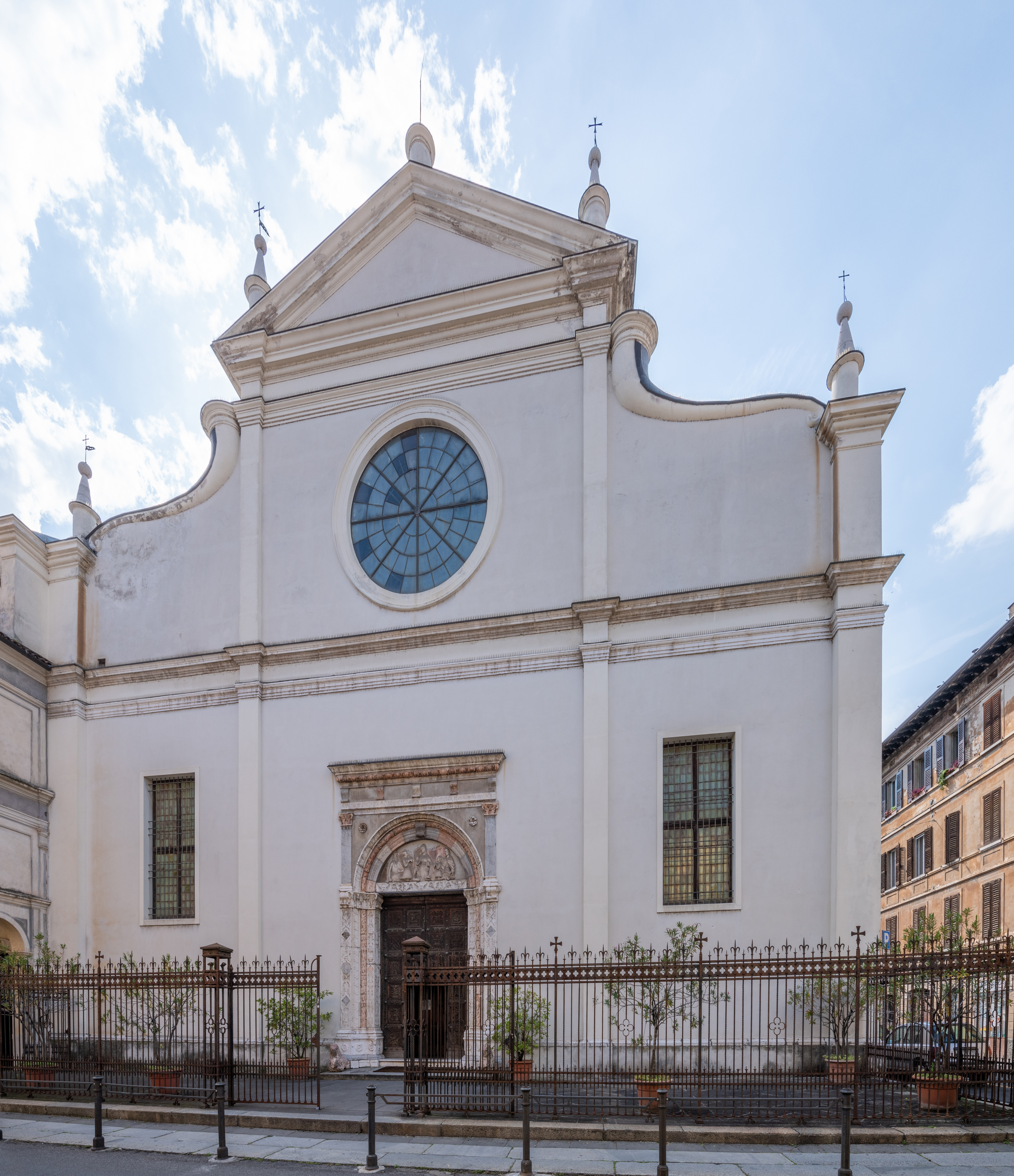 Facade of the Santa Maria delle Grazie church in Brescia